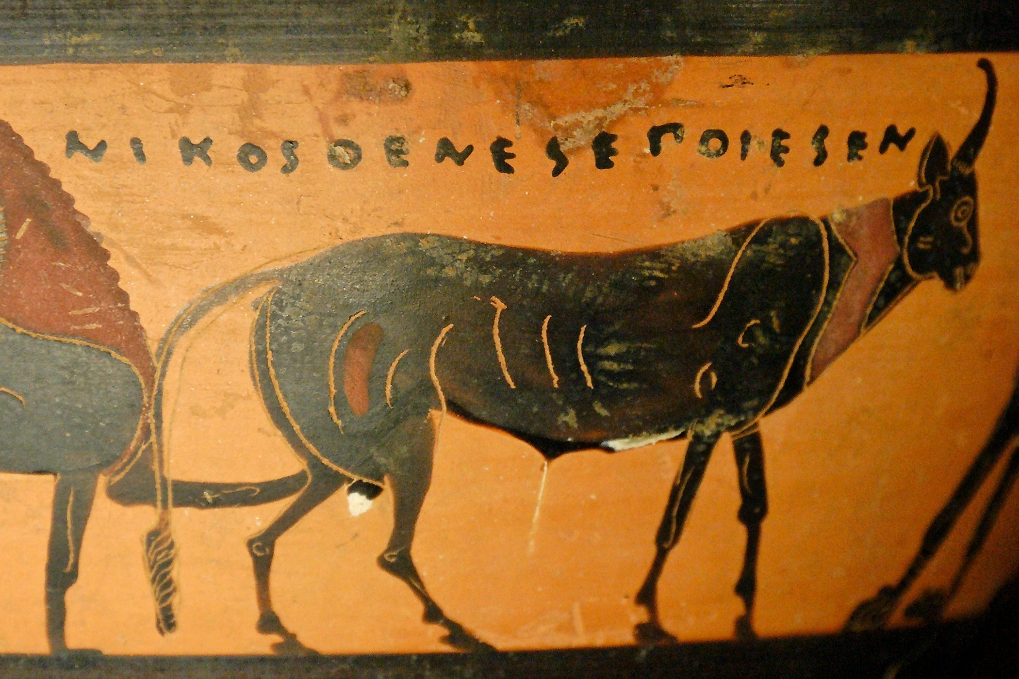 Nikosthenes' signature (ΝΙΚΟΣΘΕΝΕΣ ΕΠΟΙΕΣΕΝ), detail of the belly. Side A from an Attic black-figured Nikosthenic amphora, ca. 520–510 BC.